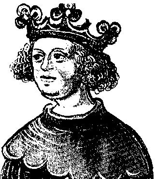 This is a portrait image of Conrad IV of Germany, it was drawn during the time of his adult years. Since he died in 1254, this image has long been in the public domain as per the attached license on Italian copyright laws.